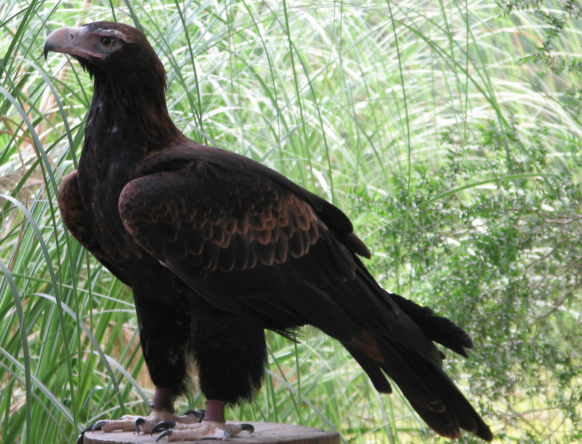 Wedgetail eagles - found in Central Queensland, Australia